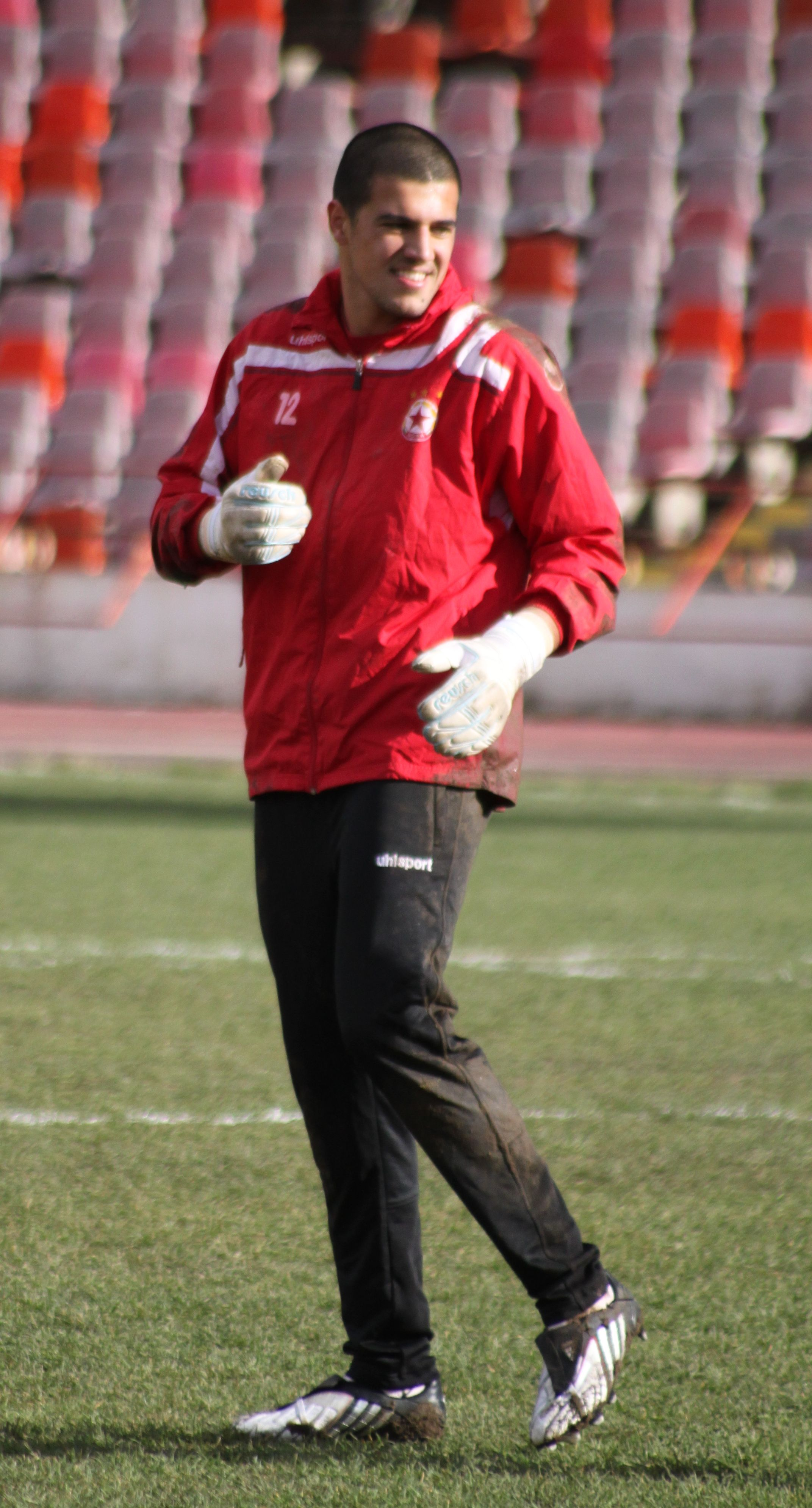 Ivan Karadzhov (Bulgarian: Иван Караджов) (born 12 July 1989) is a Bulgarian footballer. He currently plays as a goalkeeper for CSKA Sofia.